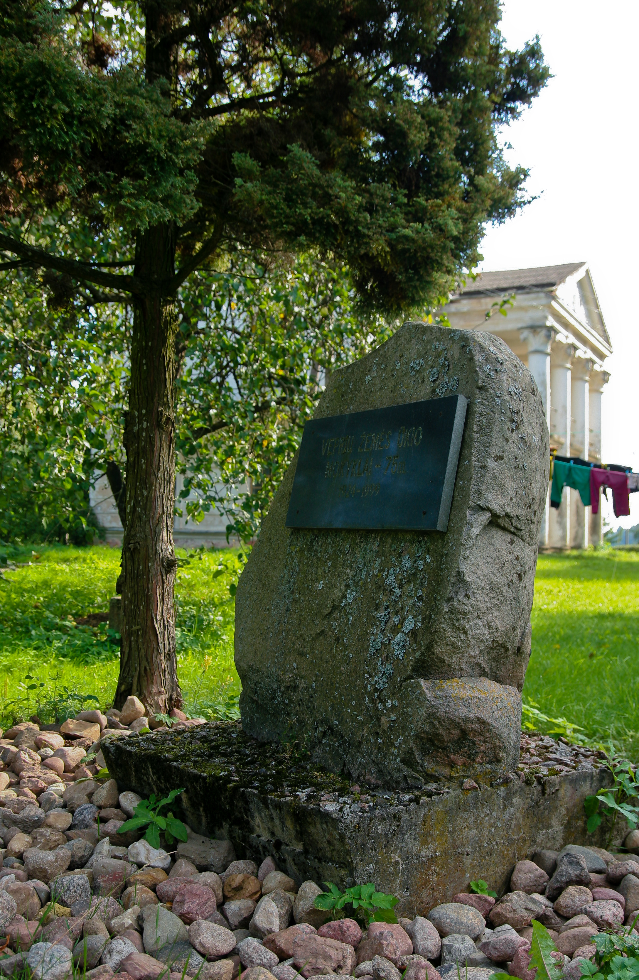 Stone commemorating 75th anniversary of Vepriai agricultural school